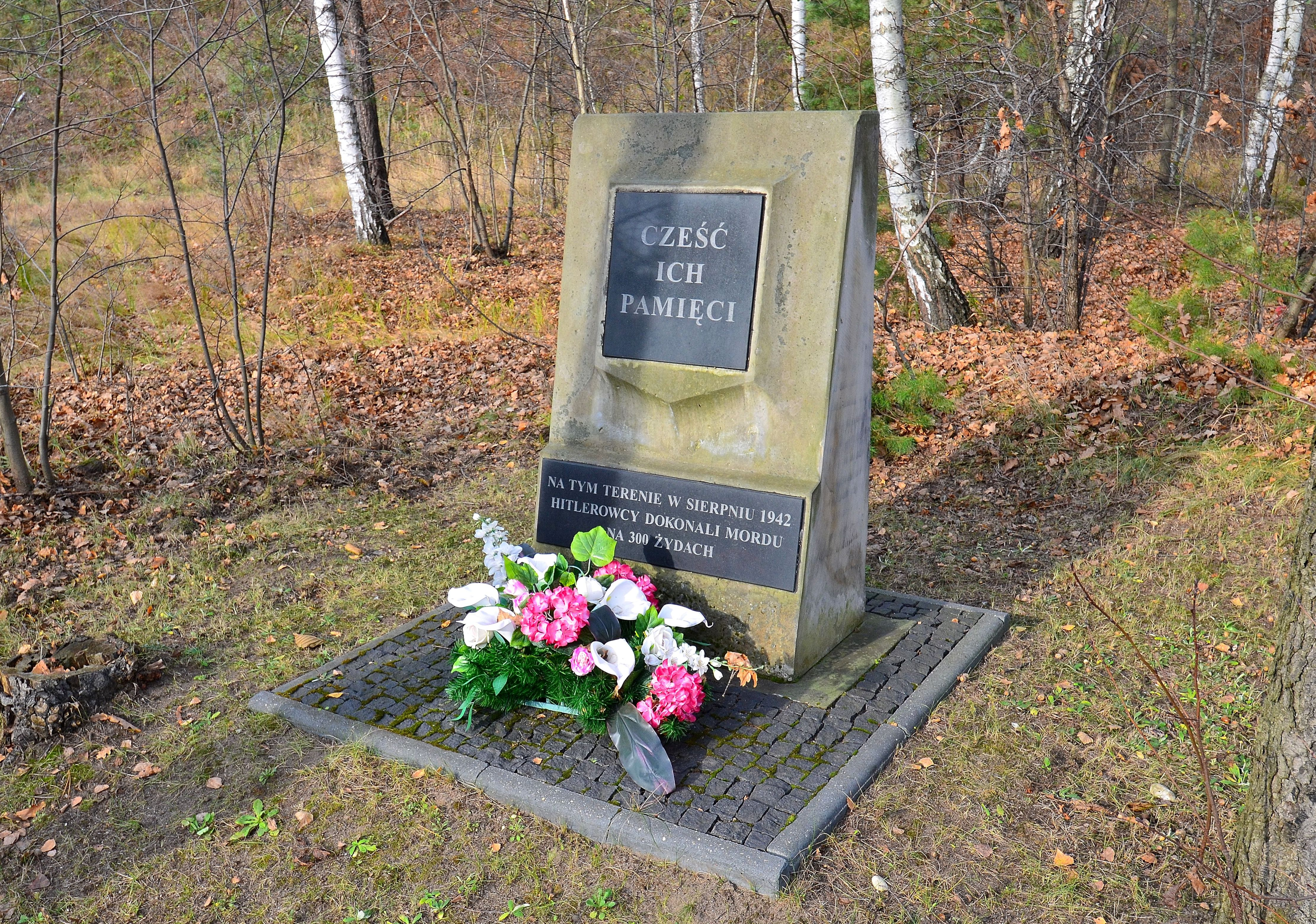 Tchorek commemorative plaque on Okuniewska Street in Warsaw (Wesoła)